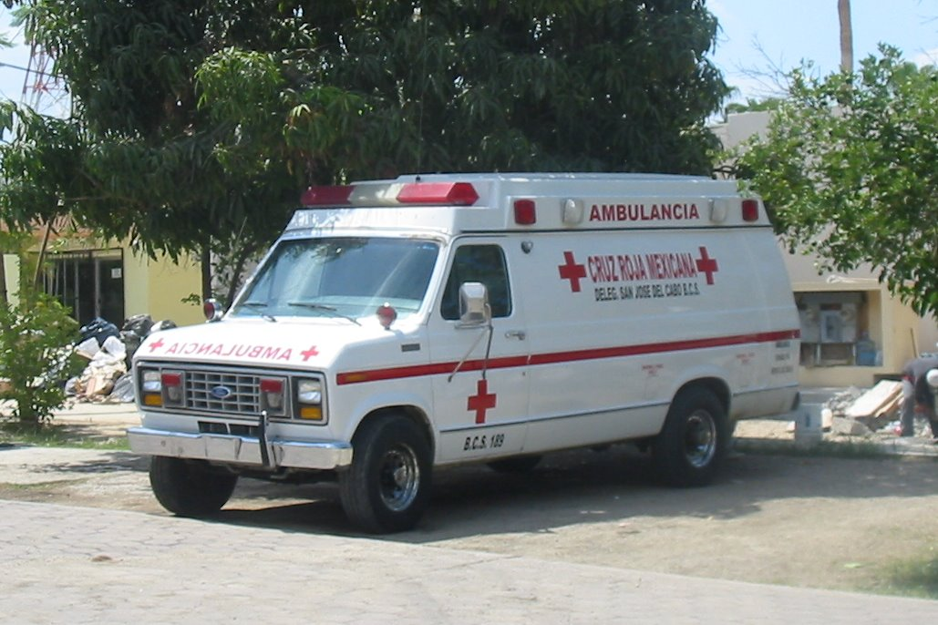 This is nothing but a closeup of the ambulance featured in Image:Sjd-ambulance.jpg, uploaded by Wikipedia user IRT.BMT.IND ([1]) with GNU Free Documentation License listed as licensing. Original image can be found at [2]